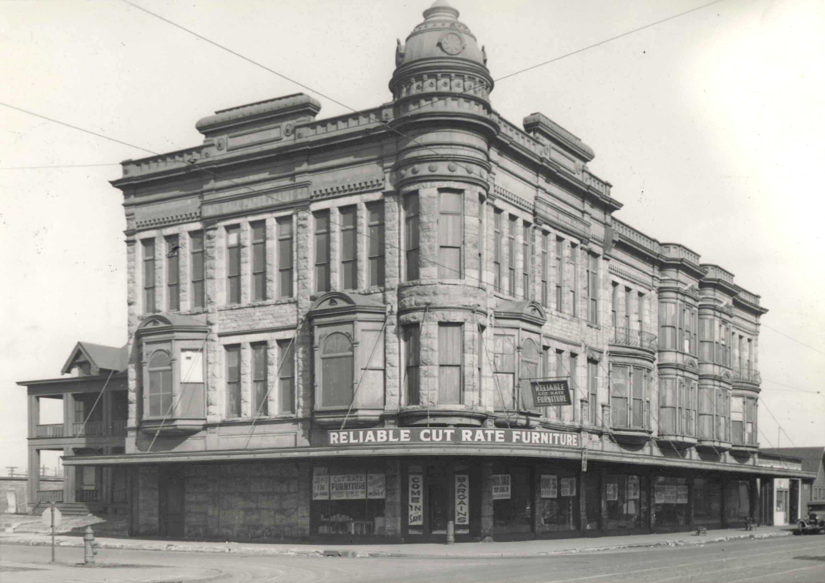 Library that preceded the Franklin Branch Library